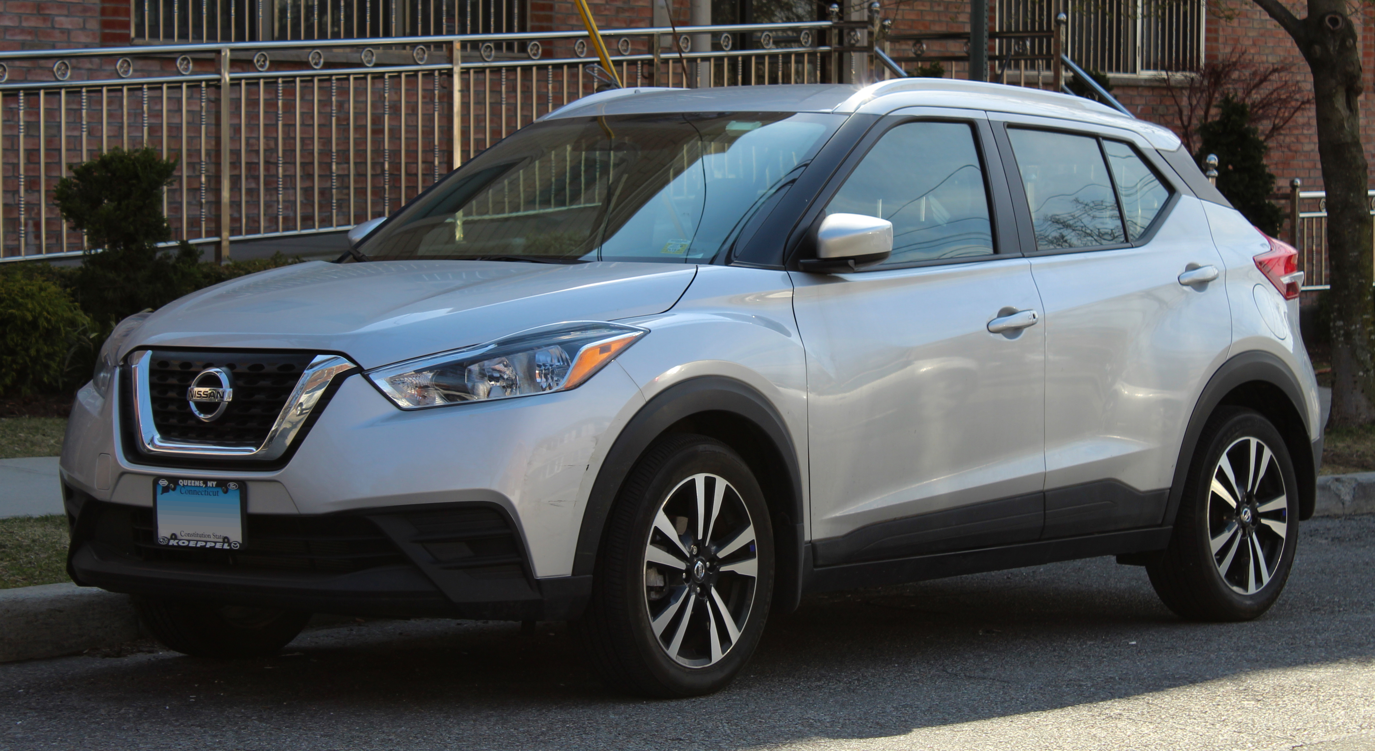 A 2018 Nissan Kicks photographed in Queens, New York, USA